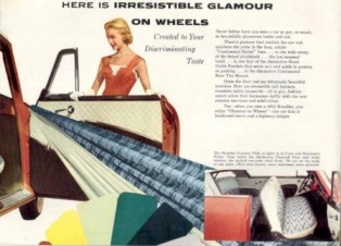 1955 American Motors Corporation (AMC) compact car, the Nash Rambler, featured special designs by Helene Rother. She was the first woman to work as an automotive designer. This image is of the special fabrics used in the interiors of the car described in the sales brochure. The image was freely provided to promote this item with the intention that it be distributed for "free" by the media to the public.